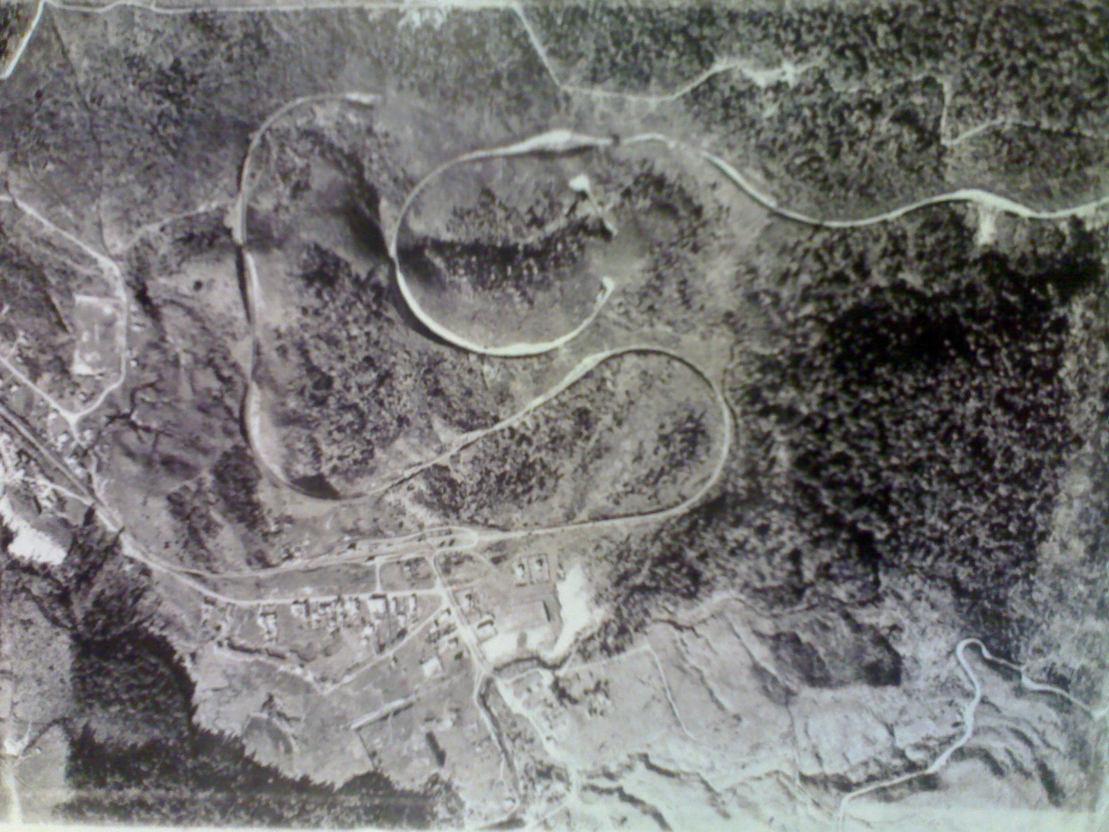 Raurumi Spiral, North Island, New Zealand